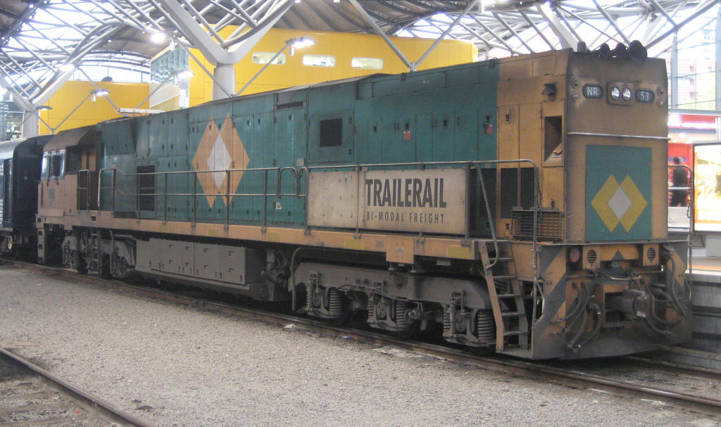 Long end leading 'Trailerail' liveried NR class diesel locomotive NR53 heads 'The Overland' at Southern Cross Station